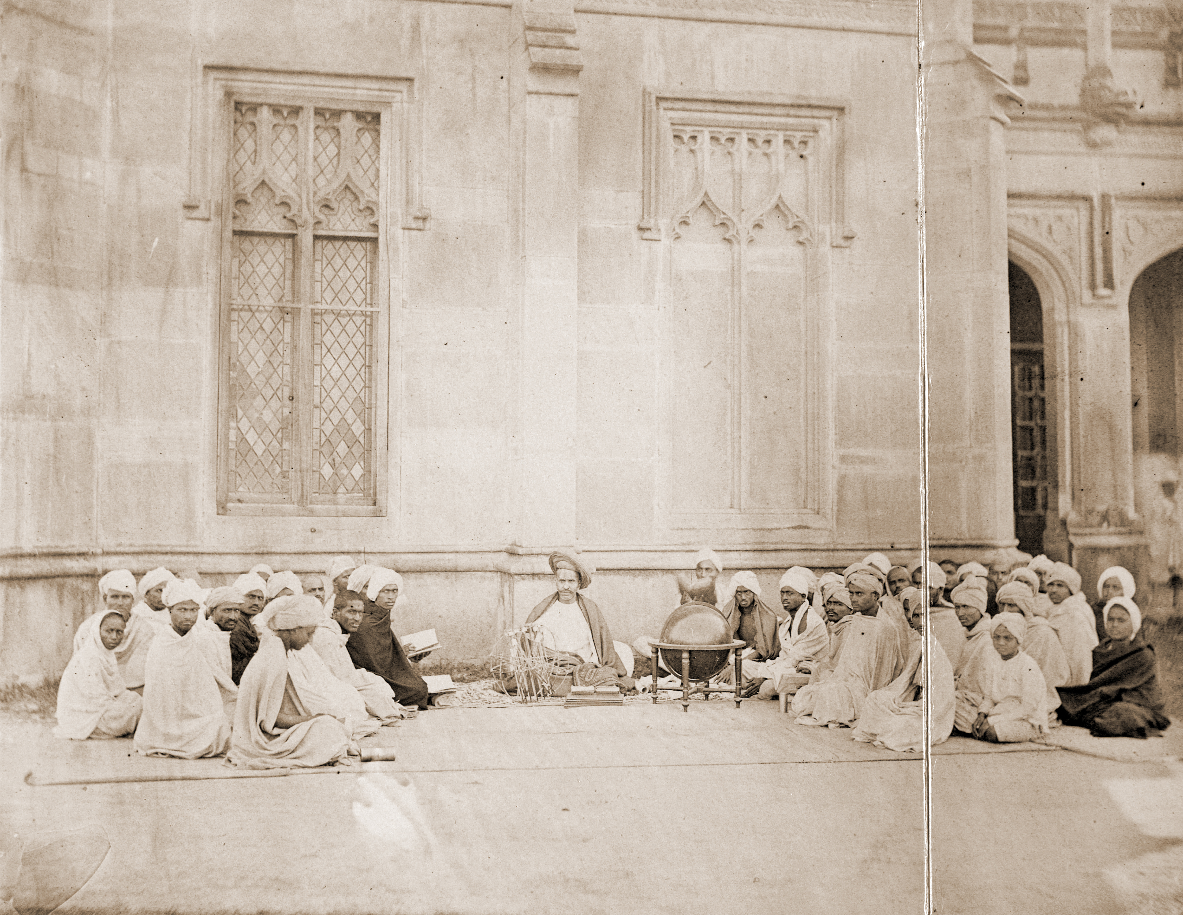 Pandit Bapudeva Sastri (1821-1900), Indian Astronomer, Professor of Astronomy, teaching a class at Queen's College, Varanasi (Benares). An inscription on the album page reads, "Taken by the photographer in the service of H. Highness the Maharaja of Benares...